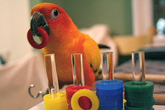 Pet Sun Conure (Aratinga solstitialis) demonstrating analytical puzzle solving skills. Photographed by Melanie Phung.